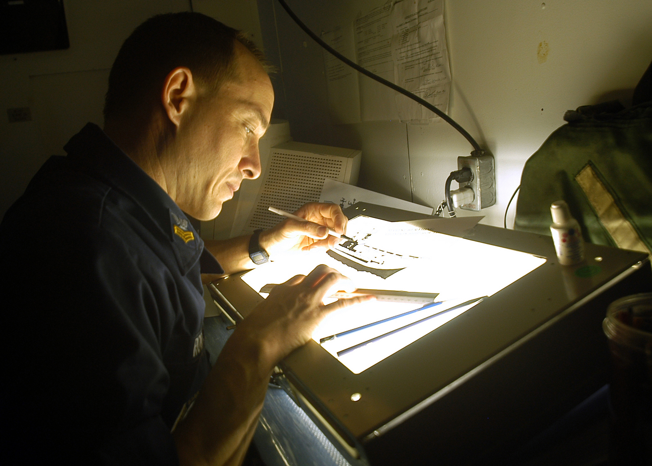 At sea aboard USS Kearsarge (LHD 3) Feb. 9, 2003 -- Illustrator Draftsman 1st Class Steven Rodgers designs a training slide with the assistance of a light table. Kearsarge, a Wasp-class amphibious assault ship, is deployed with and serving as the flagship for a seven ship Amphibious Task Force East (ATF-E) conducting missions in support of Operation Enduring Freedom. U.S. Navy photo by Photographer’s Mate 3rd Class Angel Roman-Otero. (RELEASED)